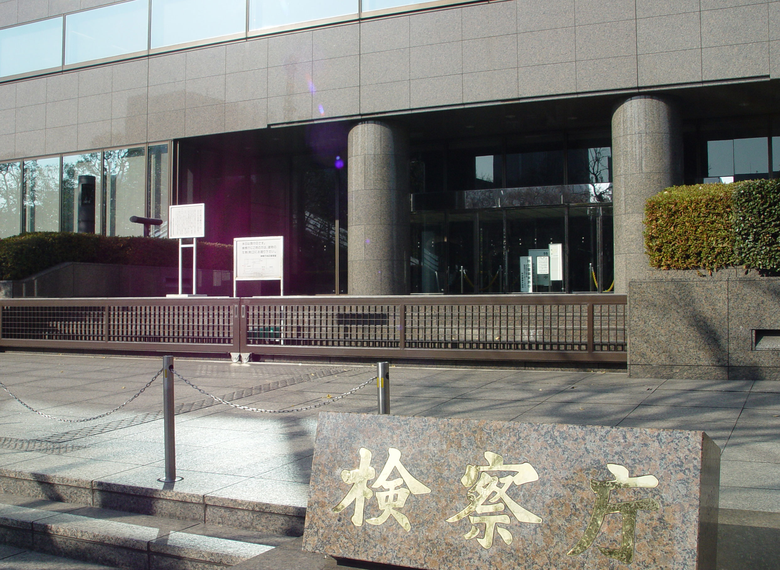 Public office building of Public prosecutors office, Japan 検察庁庁舎